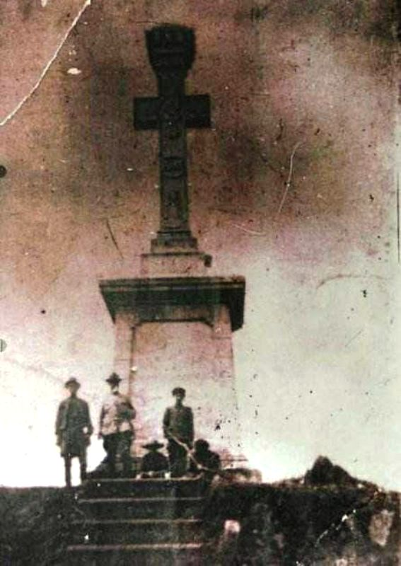 The former "Crucea Talienilor" (The cross of the Italians) form Stânişoara Pass, Stânişoara Mountains. It was built by Italian stonemasons in 1914, when the construction of "Drumul Talienilor" (The Italians Road) was completed, and it was destroyed by war in 1944.